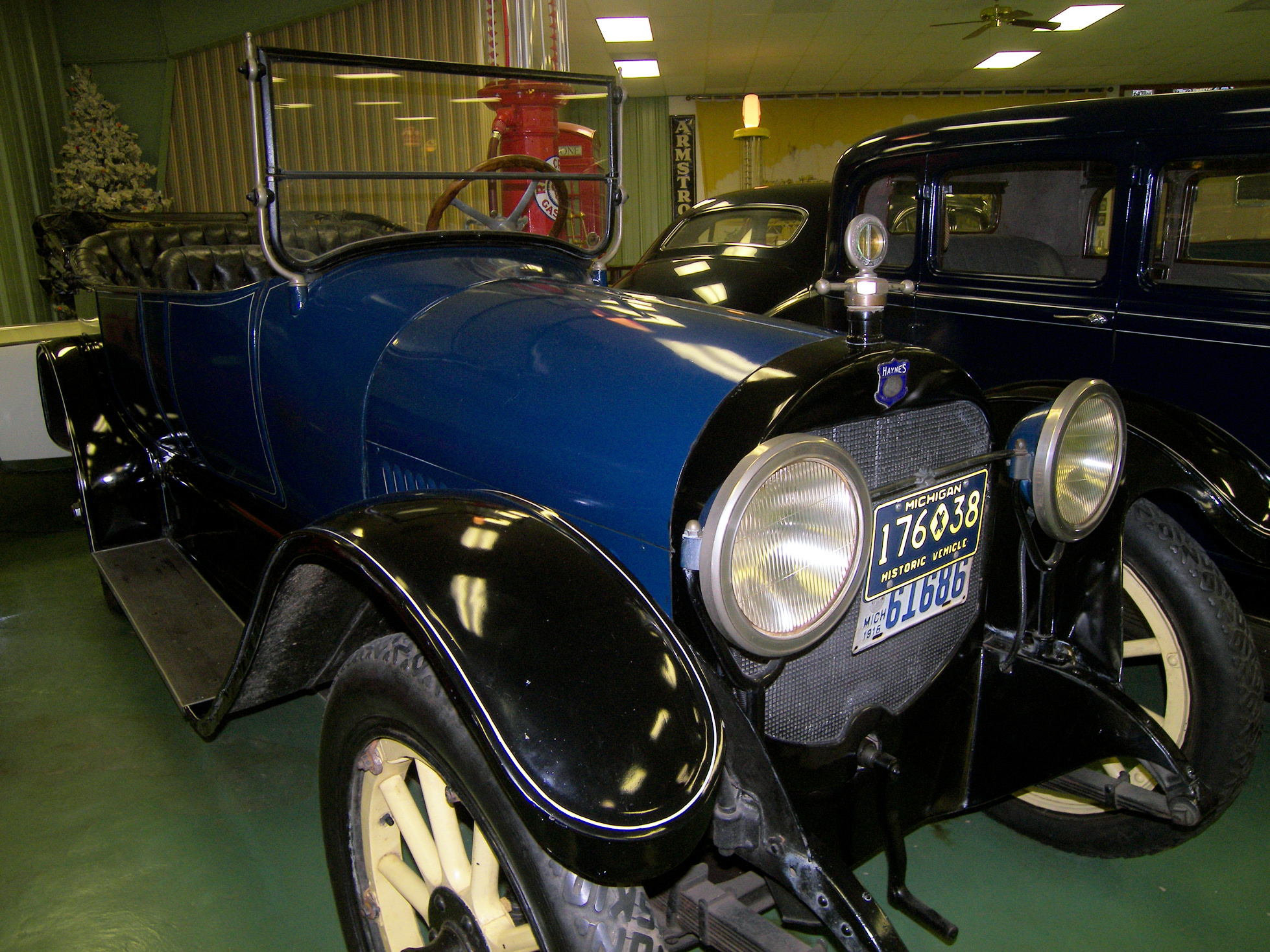 A 1916 Haynes on display at the Central Texas Museum of Automotive History (closed) in Rosanky, Texas, United States.